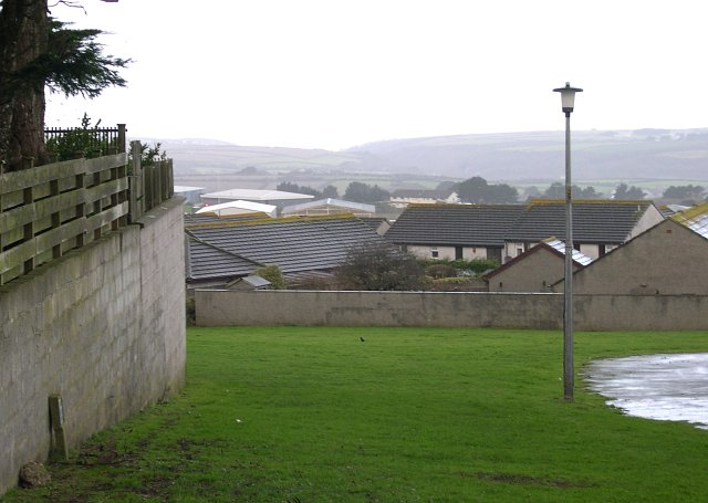 Mount Ambrose, Redruth. Looking west down the hillside over the rooftops of modern housing and an industrial estate.